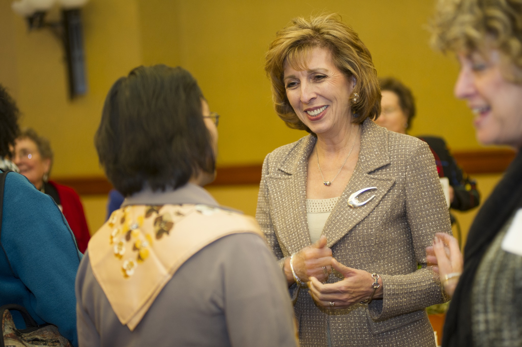 Linda Katehi meeting with students and faculty after an event held at UC Davis.